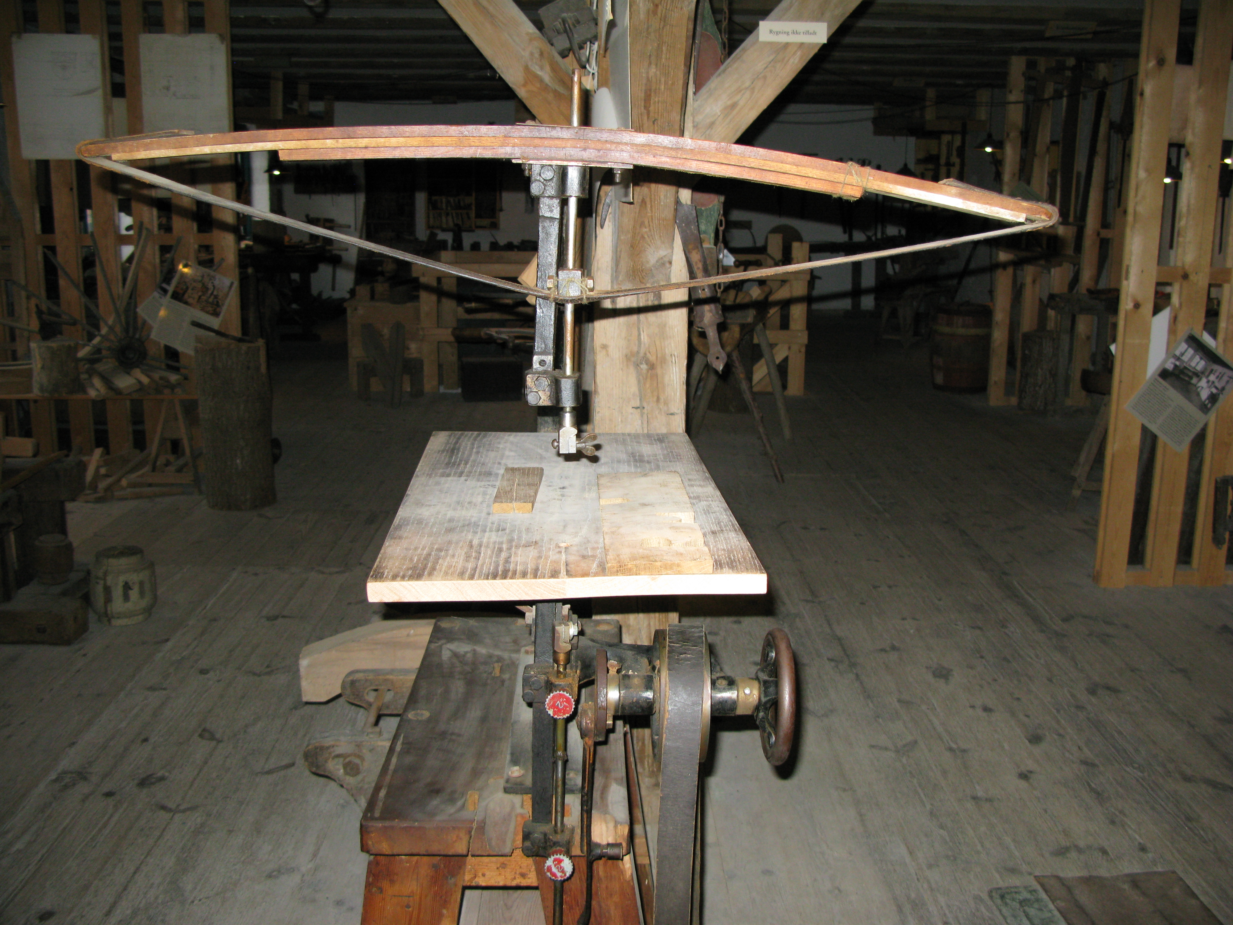 Fretsaw.